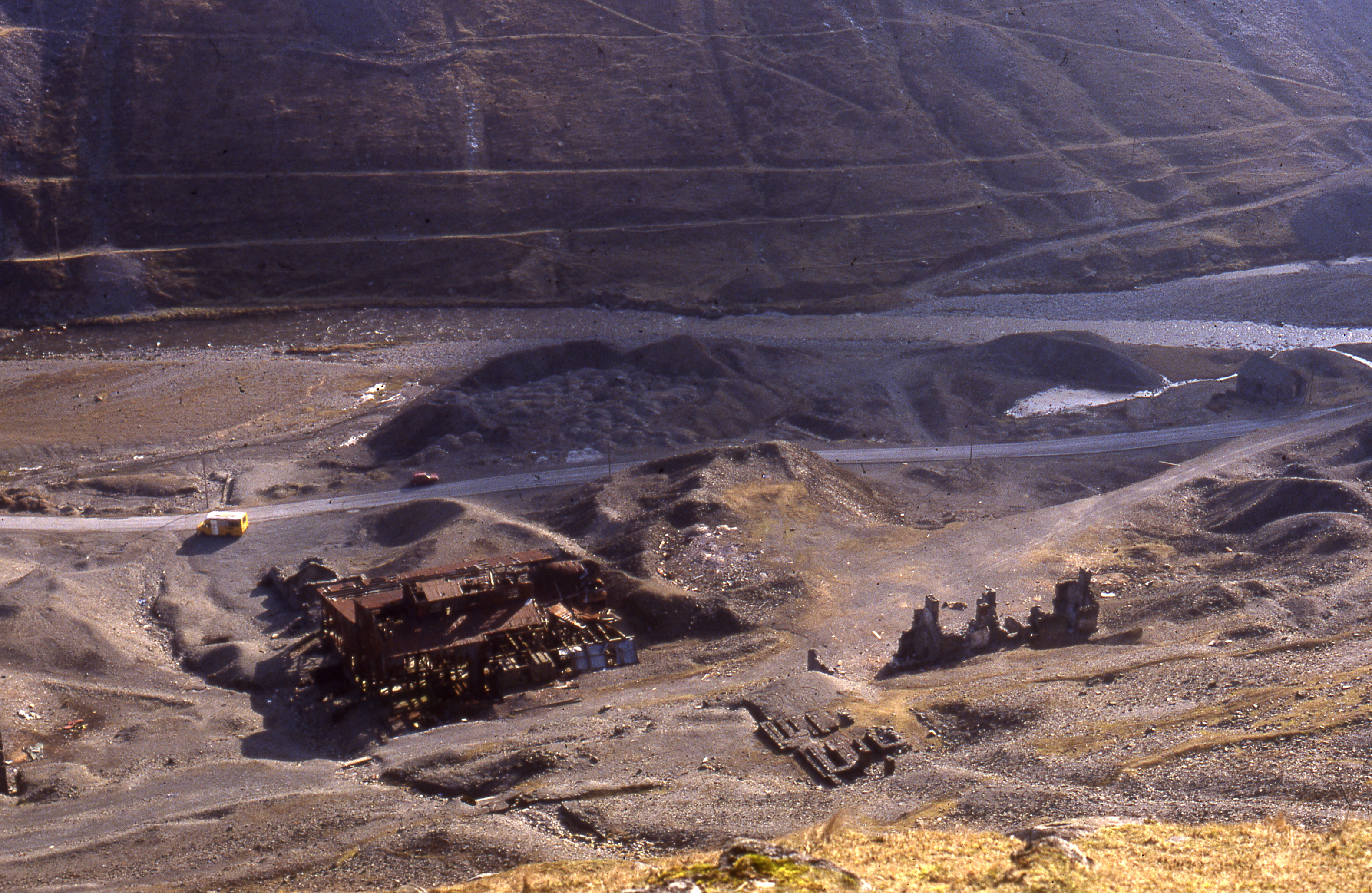 View of Cwm Ystwyth mine and its buildings in winter 1985. Scan of original Ektachrome transparency